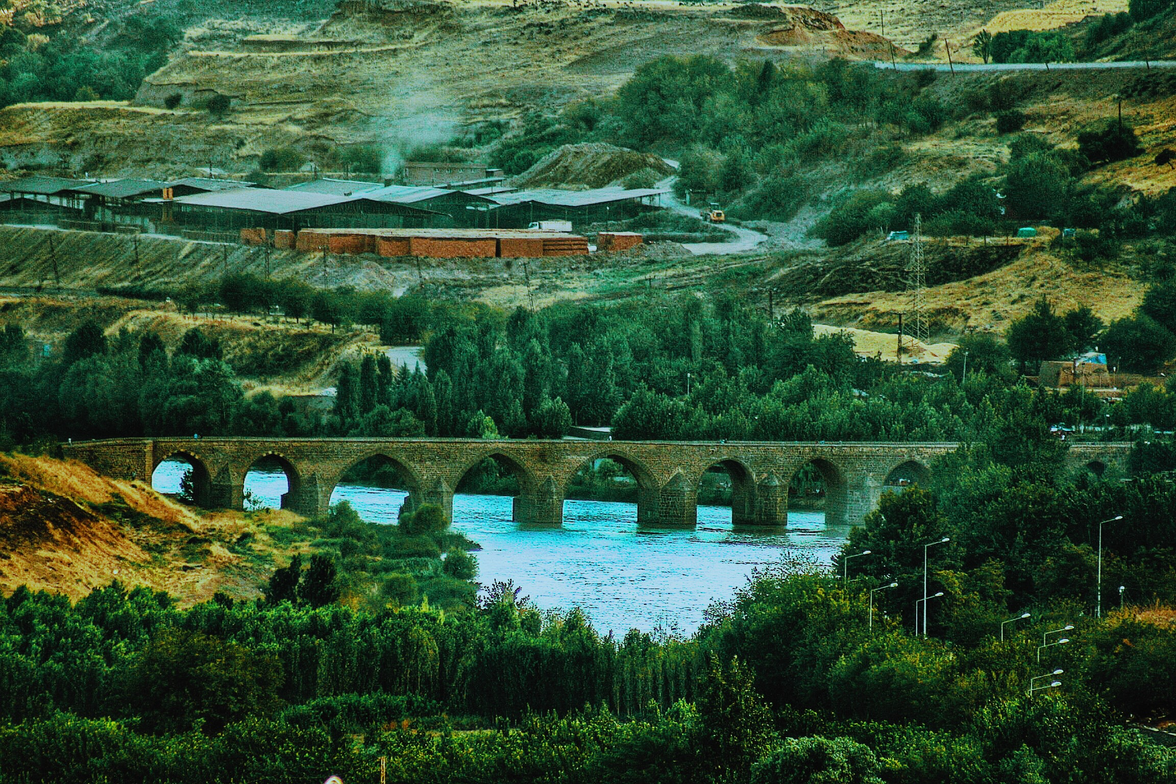 Ten-Arched Bridge in Diyarbakır